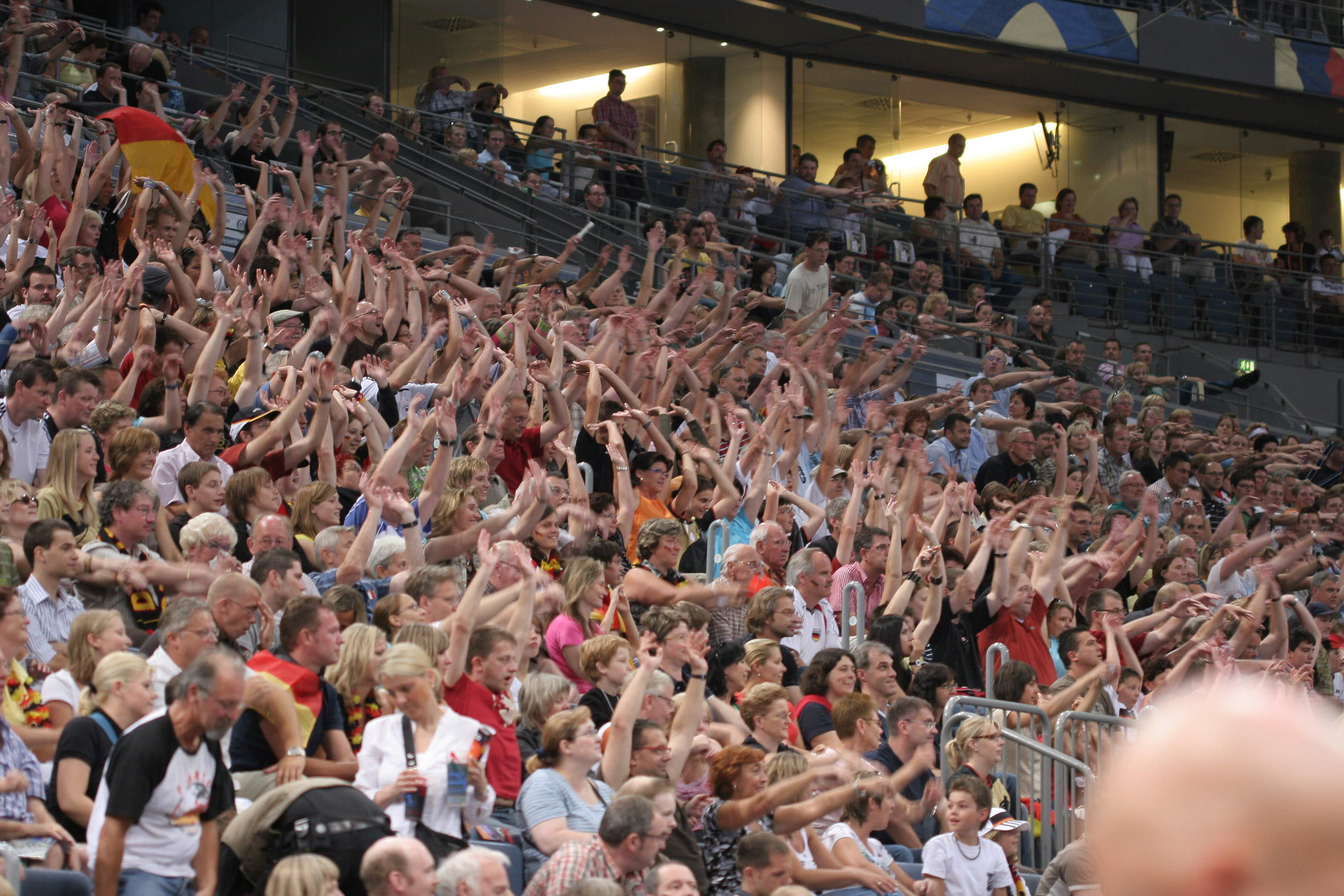 La Ola during the cap Germany vers. Russia, on July 26th 2008 in the Lanxess-Arena of Cologne